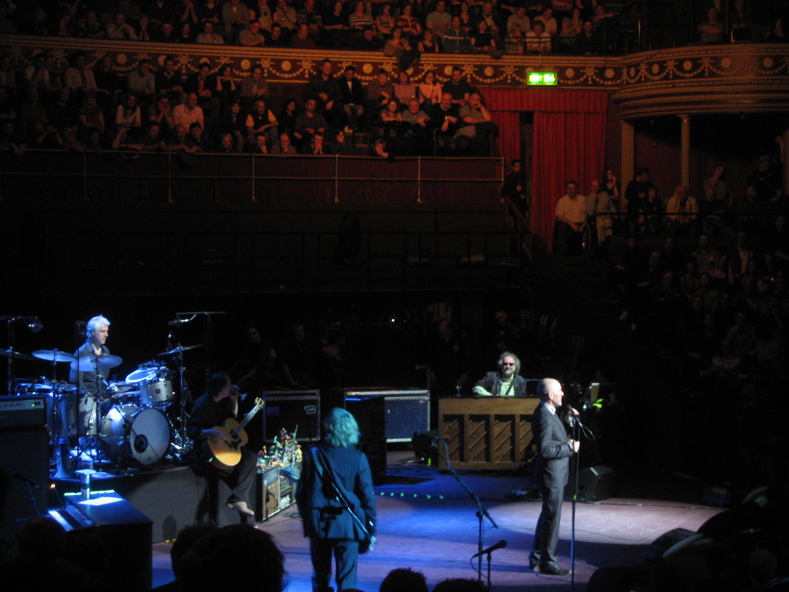 R.E.M. performing in 2008